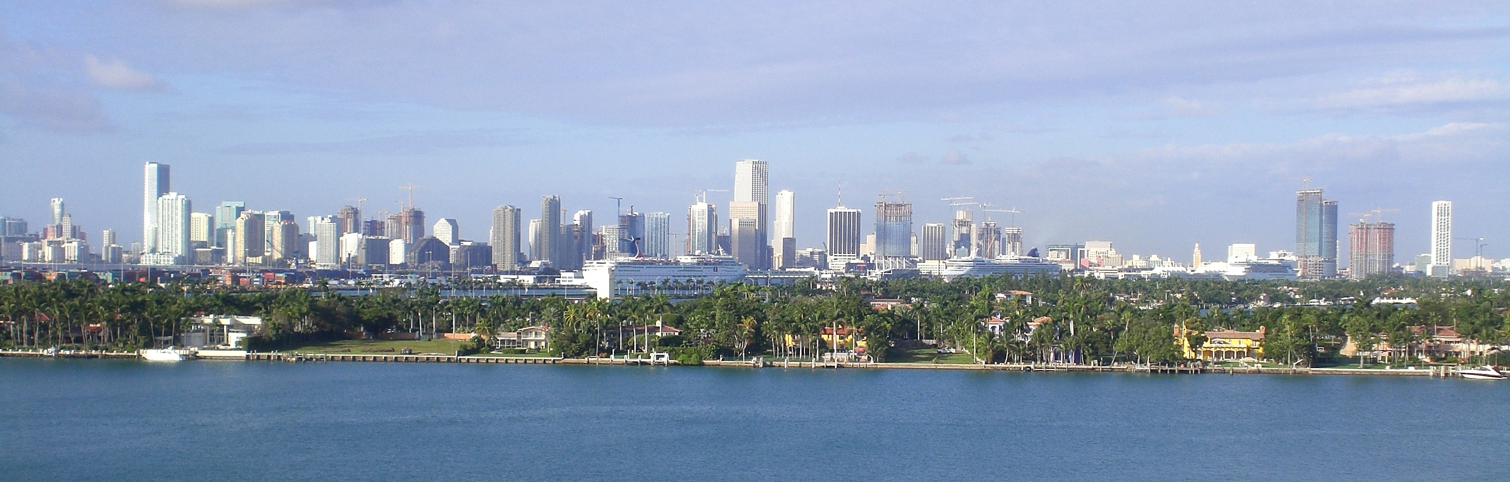 Miami skyline as seen from Miami Beach (Southbeach).